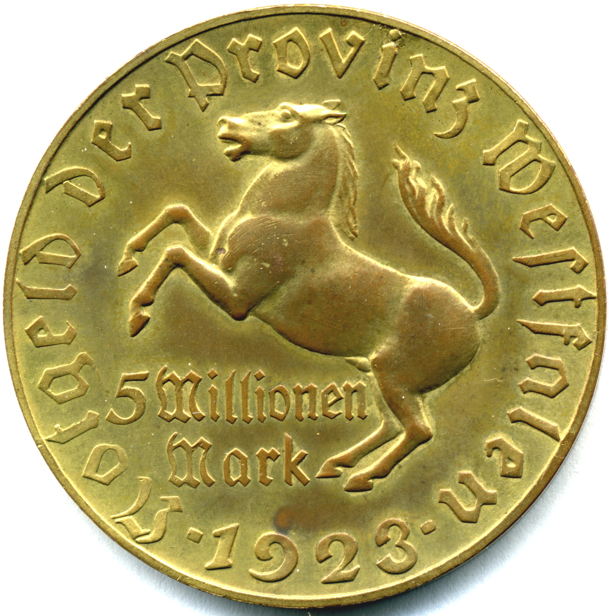 5 million mark coin 1923 notgeld reverse with date and denomination.